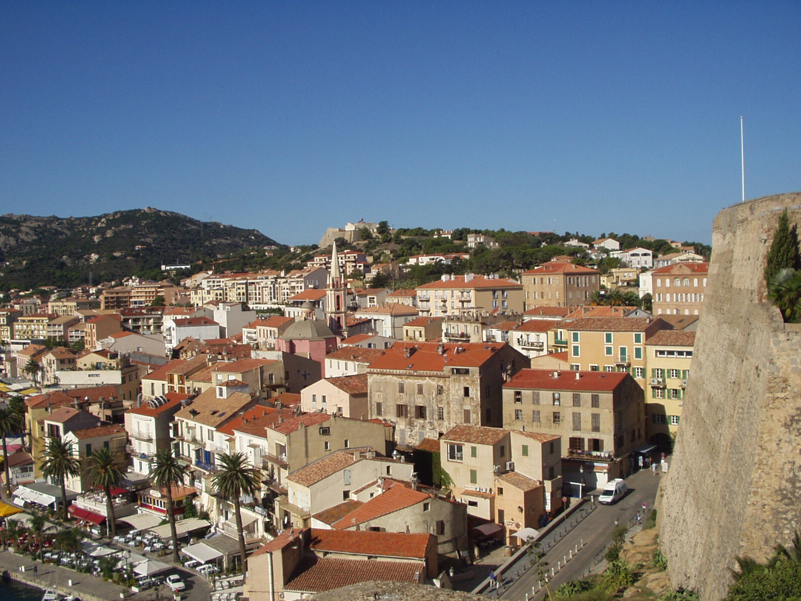 Old city of Calvi, corsica, France, seen from the citadel